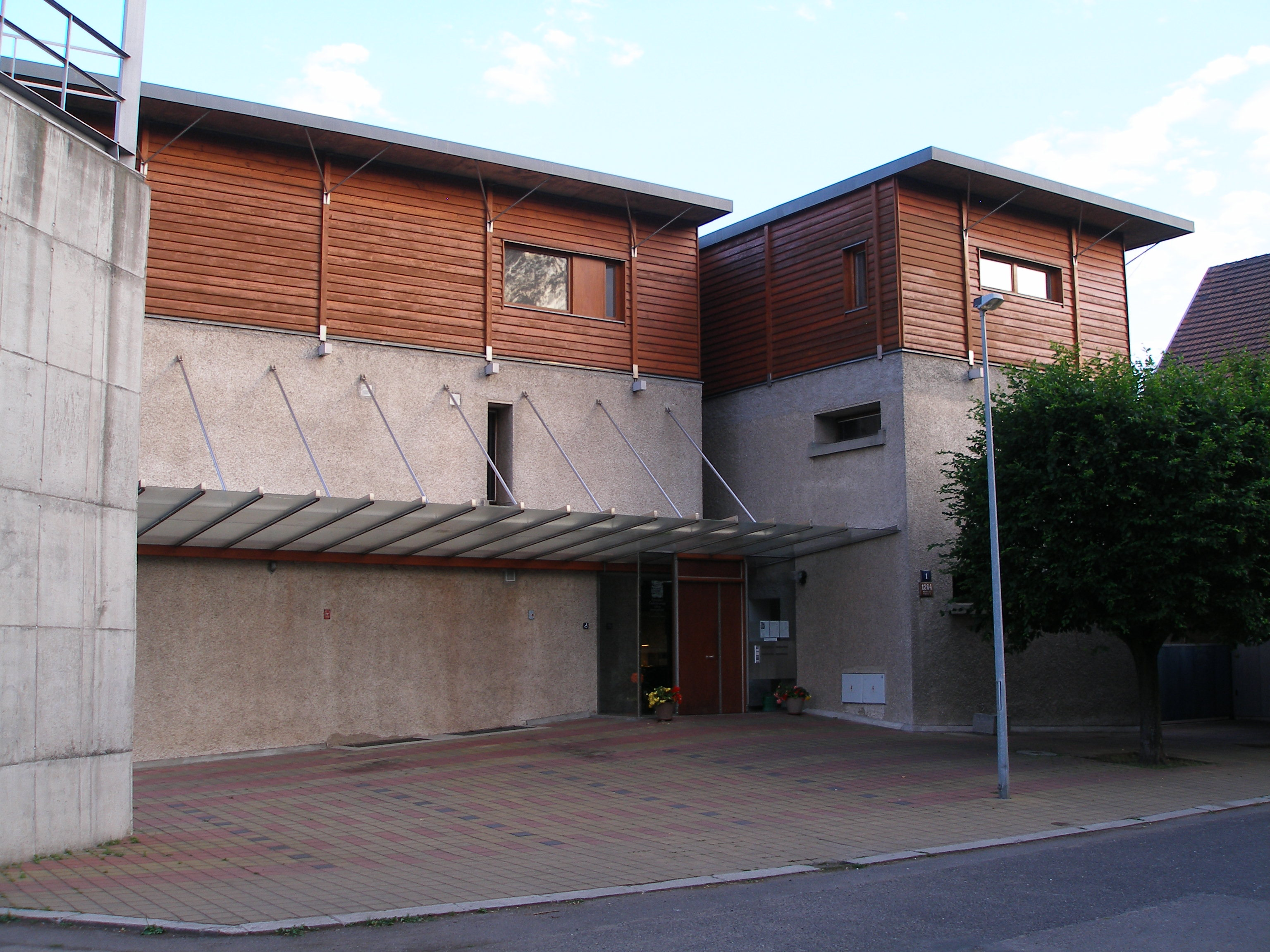 View from north side to church at Jakkob's ladder.